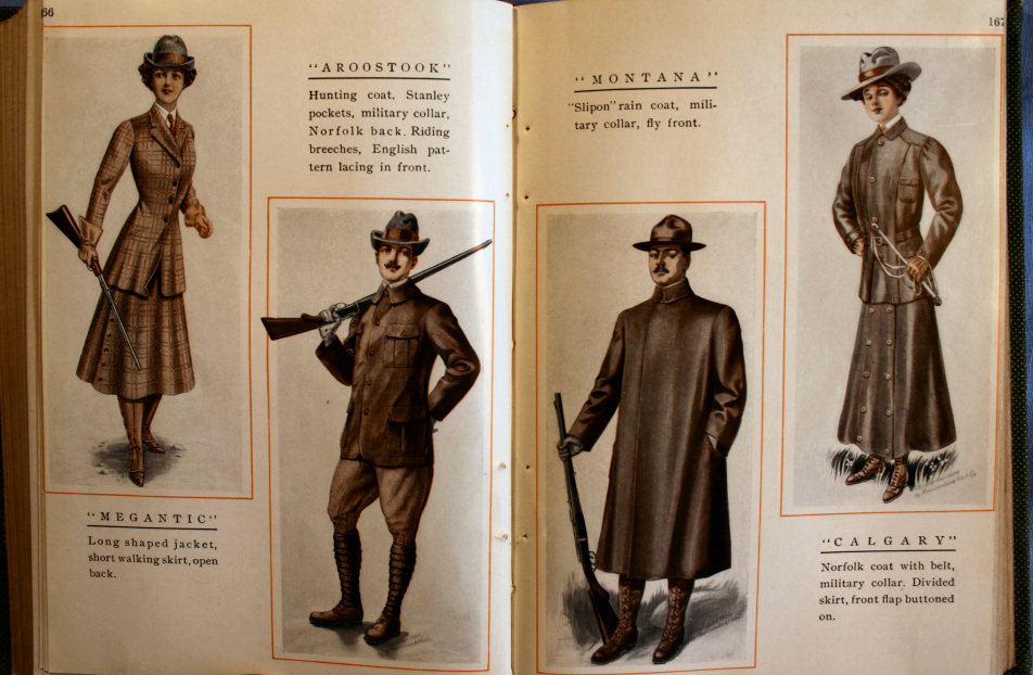 Catalog Page from 1909 (first) Abercrombie and Fitch Catalog showing Hunting Clothing